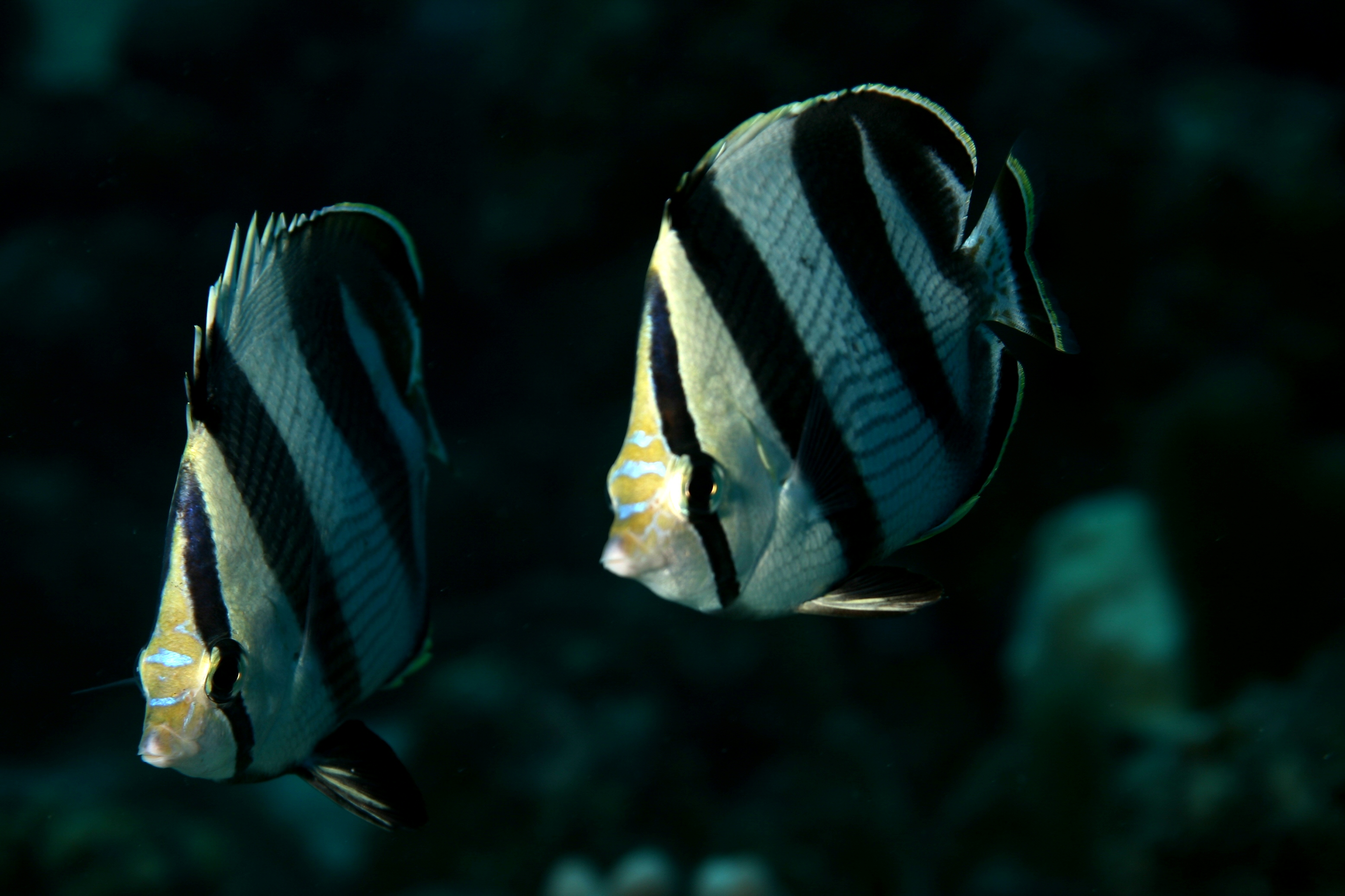 Almost always found in pairs (but sometimes difficult to get two in the same frame), these active little fish are a common site on Caribbean reefs. (Chaetodon striatus) taken at Playa Jeremi, Curaçao, NA